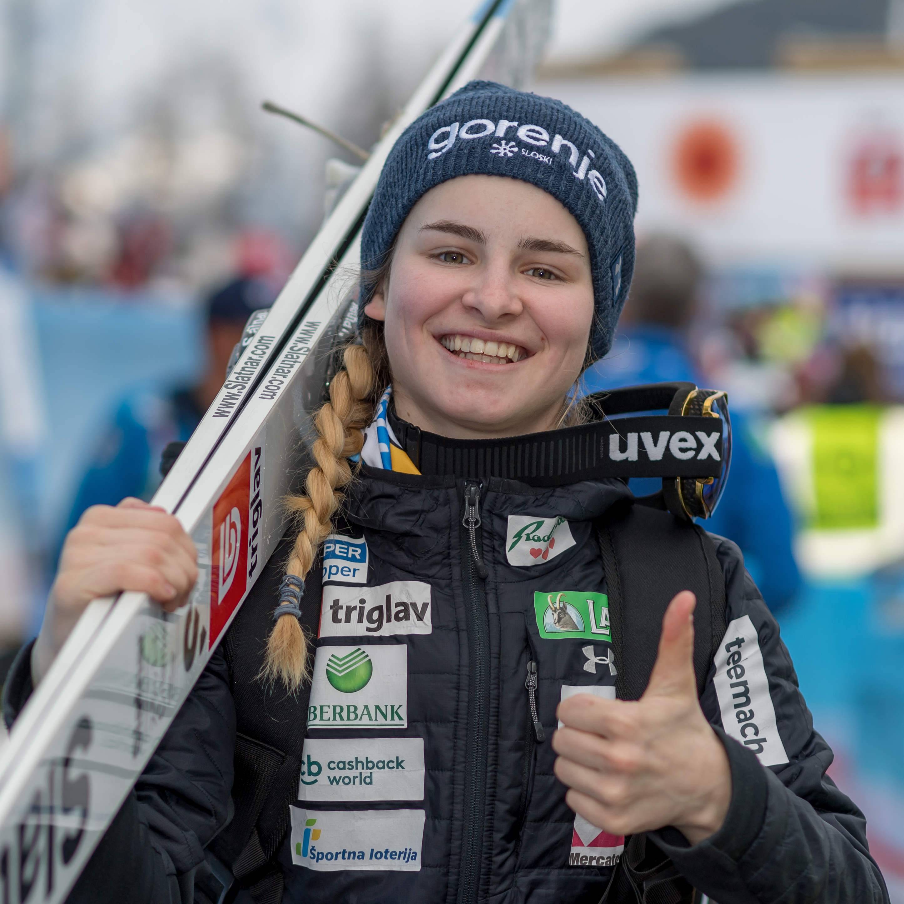 Seefeld, March 2, 2019: FIS Nordic World Ski Championships, Ski Jumping Mixed Team.